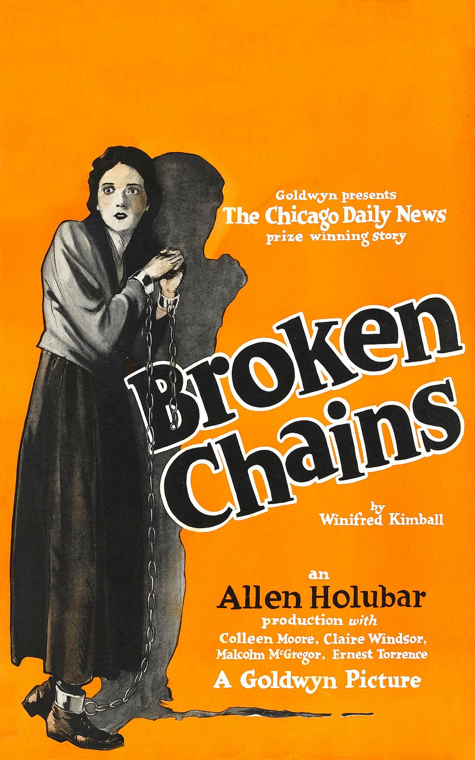 Movie poster from the American drama film Broken Chains (1922) featuring Colleen Moore.